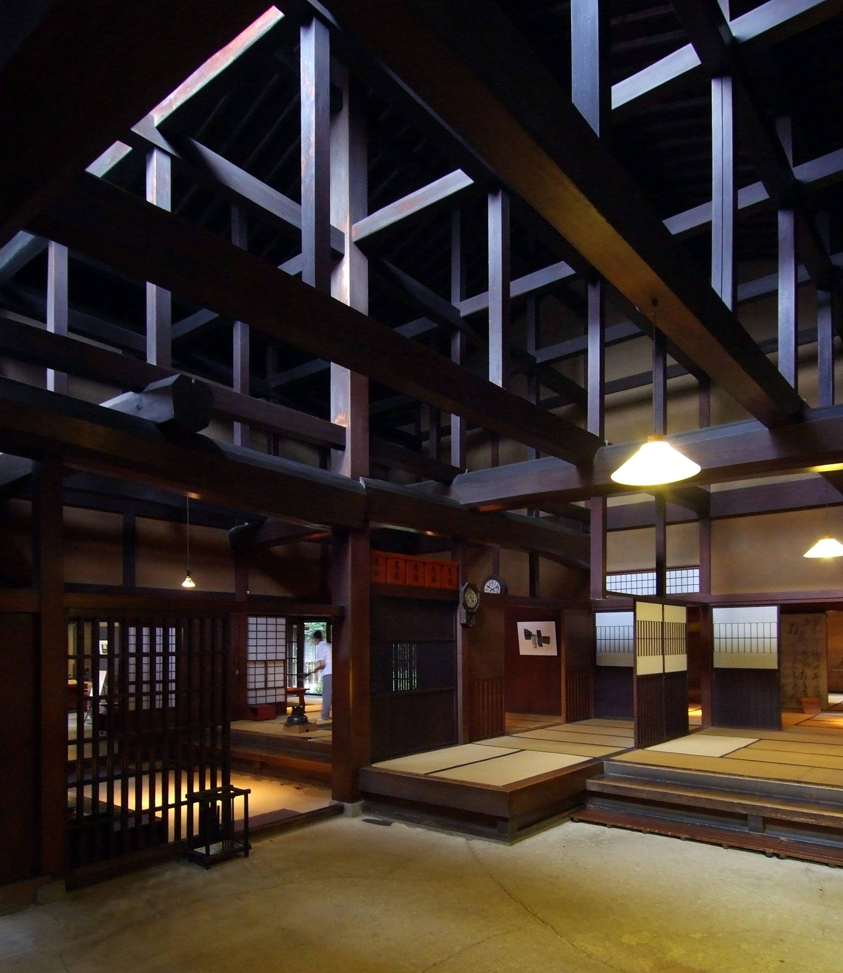 Yoshijima house at Takayama Gifu Japan, design by Isaburo Nishida in 1907.